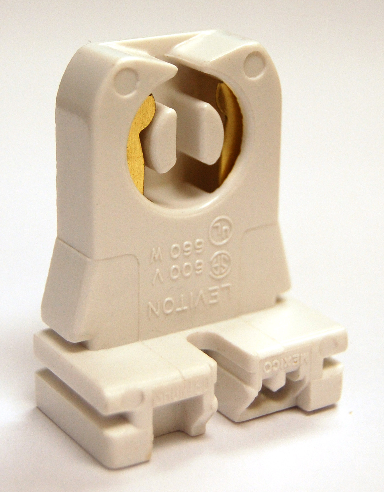 Shunted lamp holder for T8 and T12 bi pin flourescent lamps, surface or slot mount, Leviton brand.